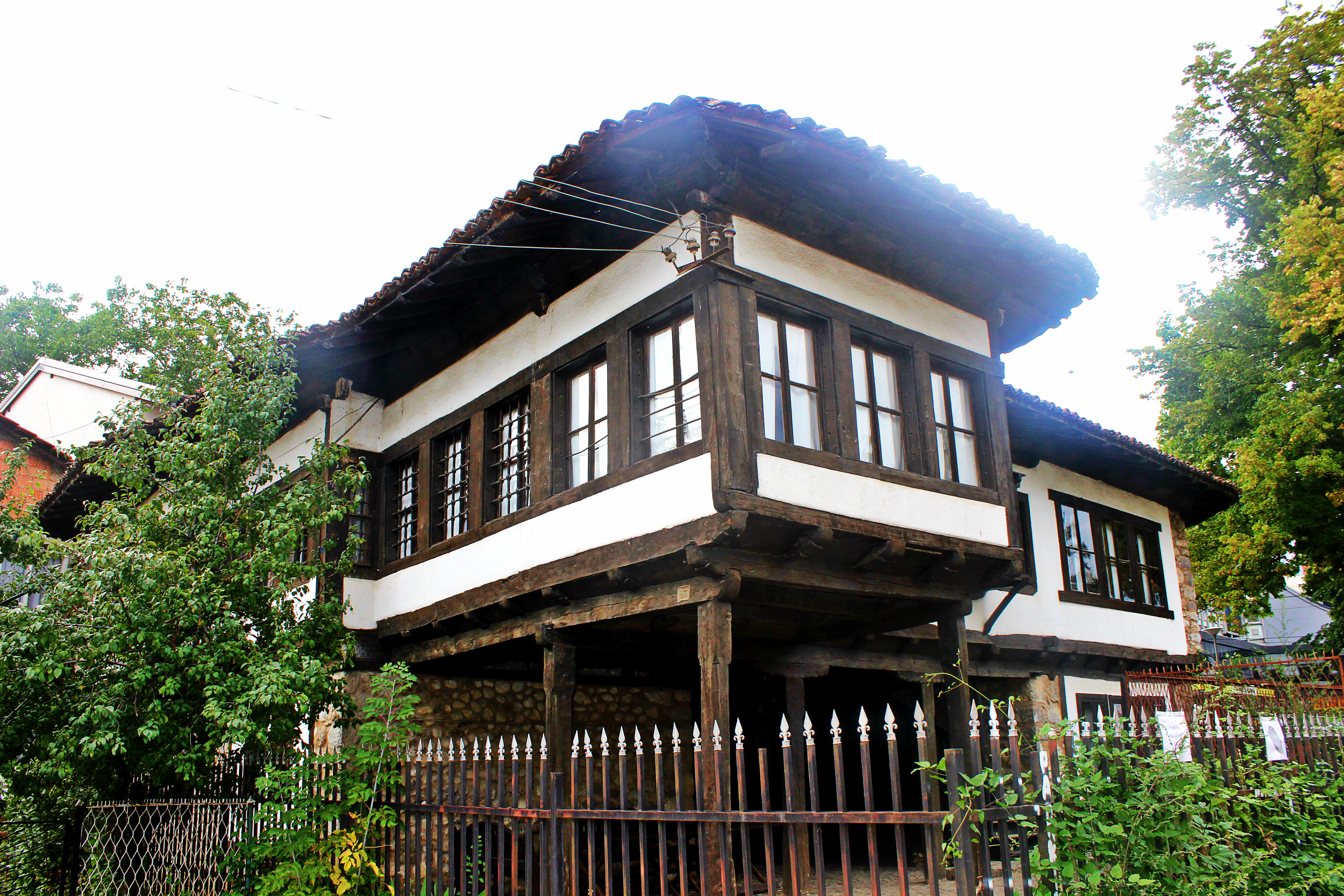 Ethonologic museum, Peje